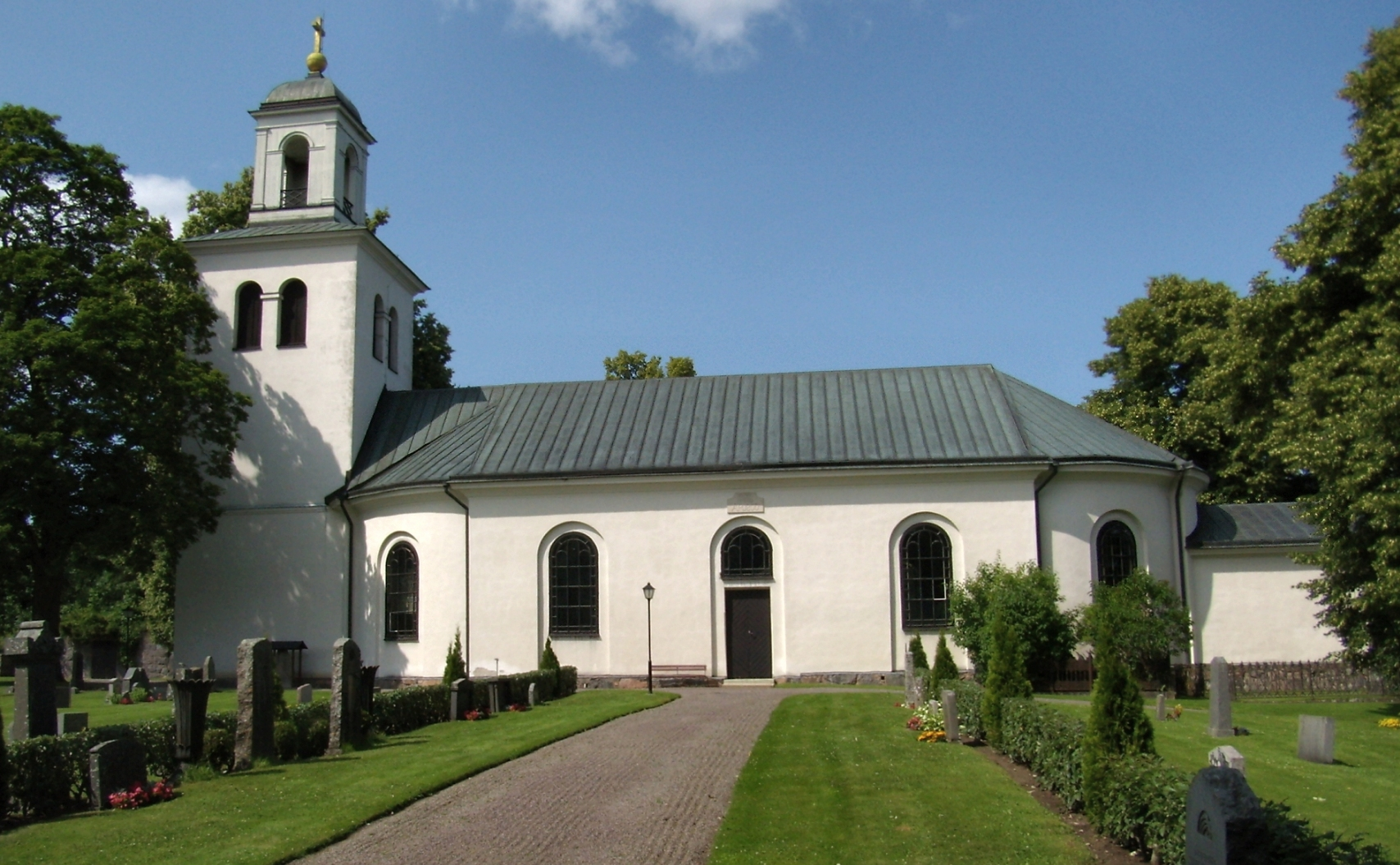 Björsäters kyrka, Östergötland